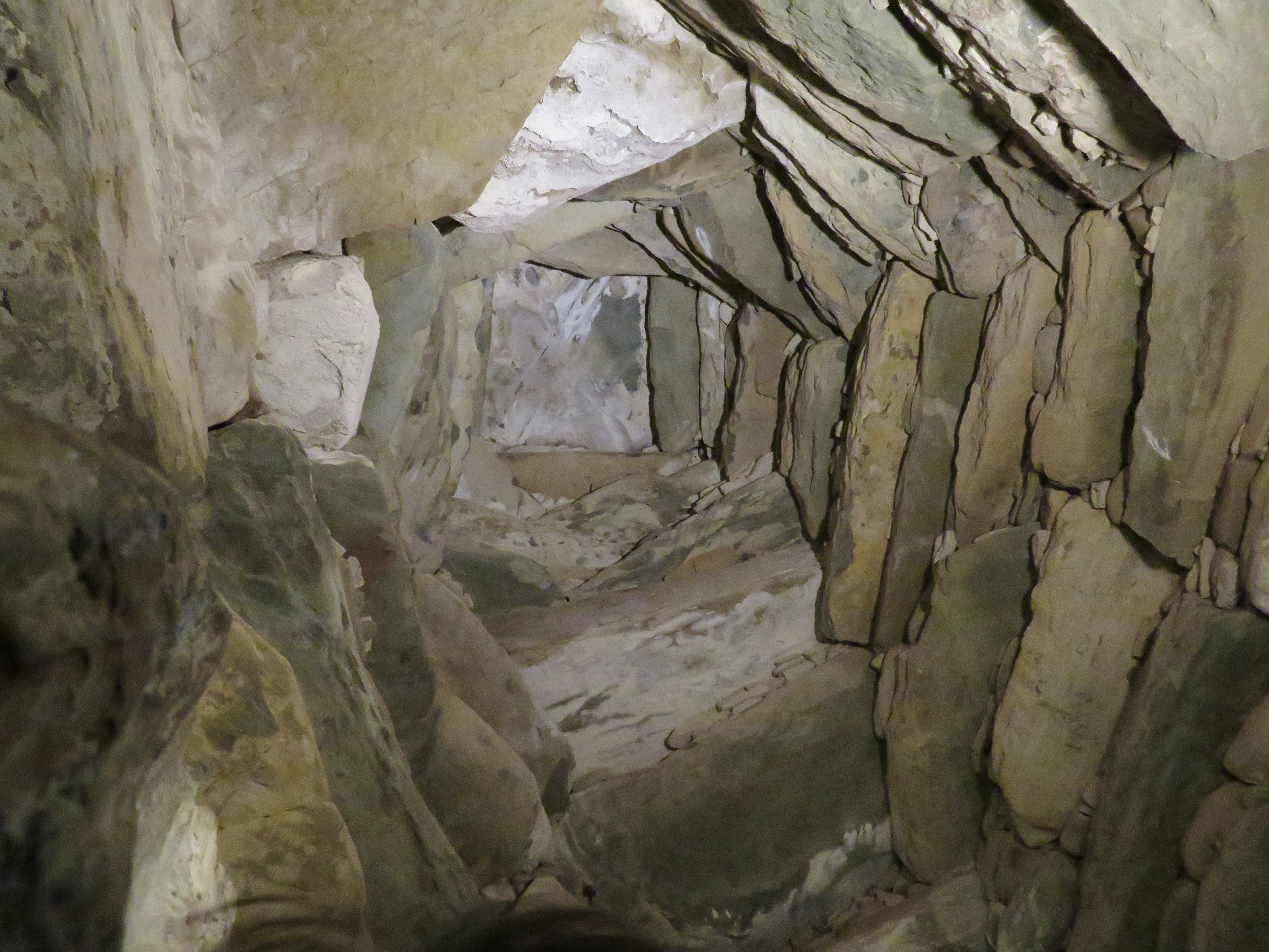 The corbelled vault of the Newgrange passage tomb chamber with a central capstone six metres above the floor.